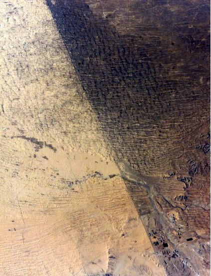 The border between Israel (on the right) and Egypt, showing the difference in bush coverage due to Shepherding.